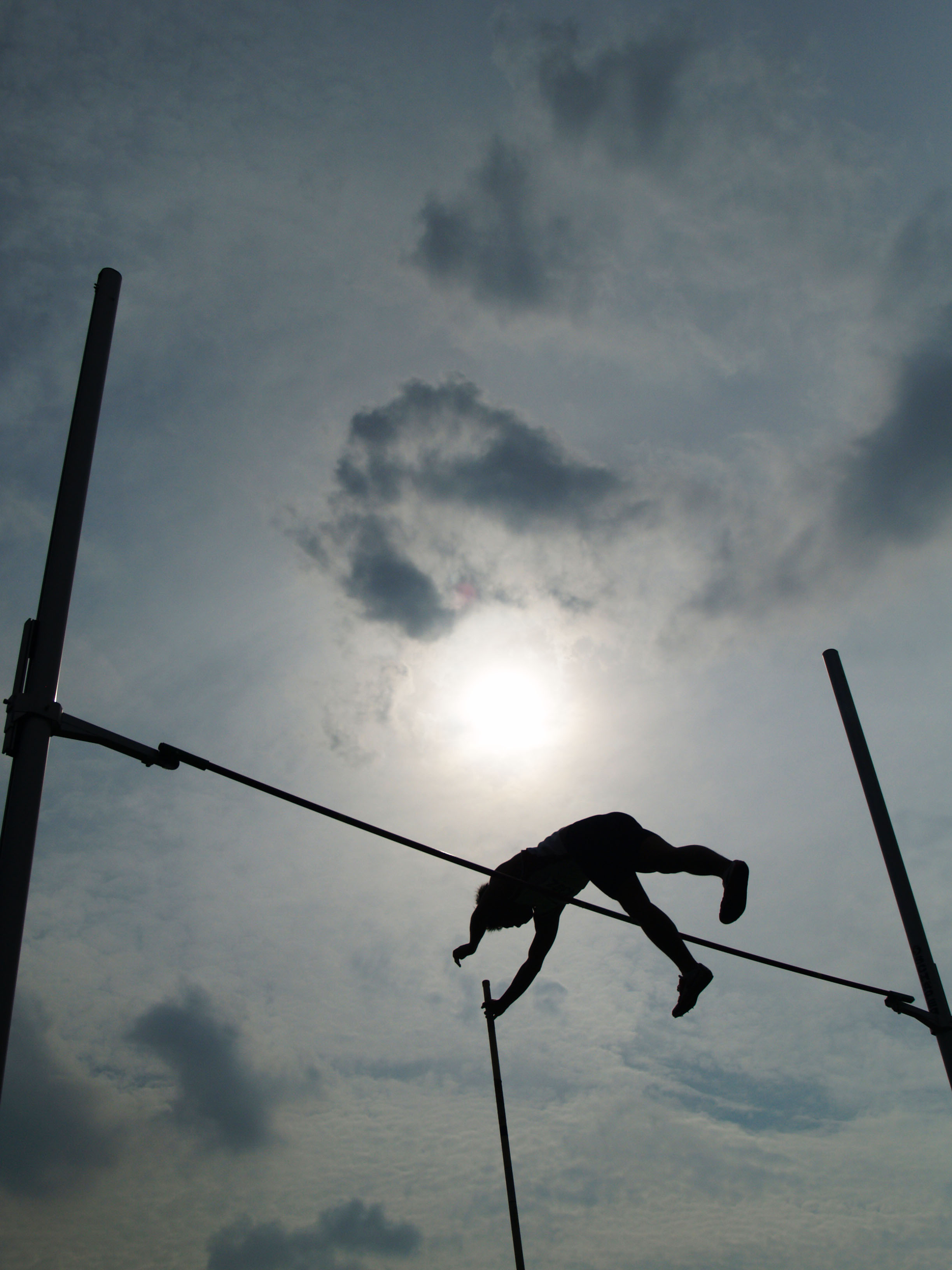 Its all for this moment. Pole vault. track and field perspective